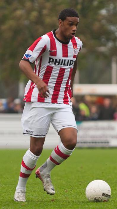 Jurgen Locadia player of PSV